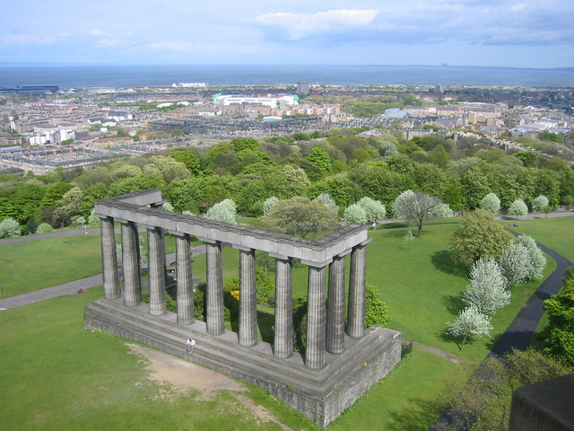 Calton Hill Monument. from City Observatory